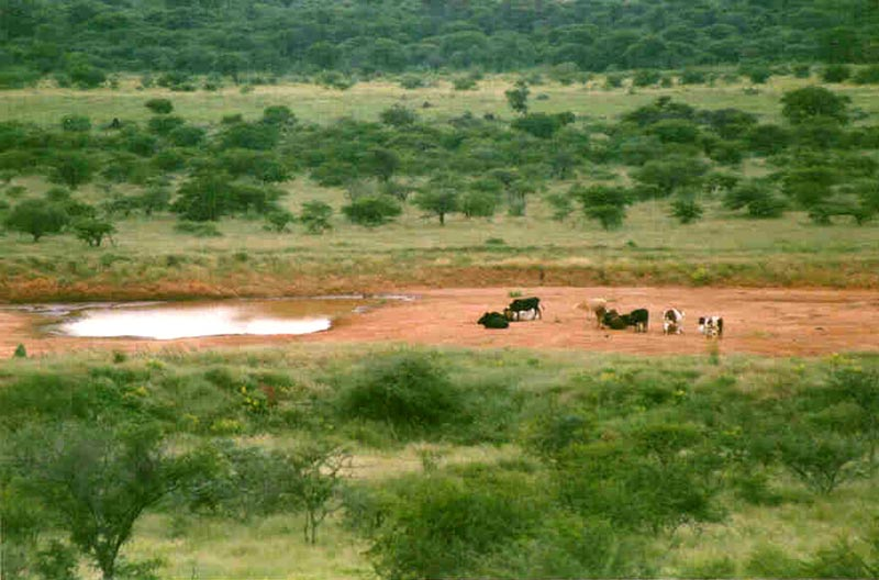 en.wiki: "Taken and donated by user:Guinnog Caption at Botswana: "Cattle at a water hole near Serowe"